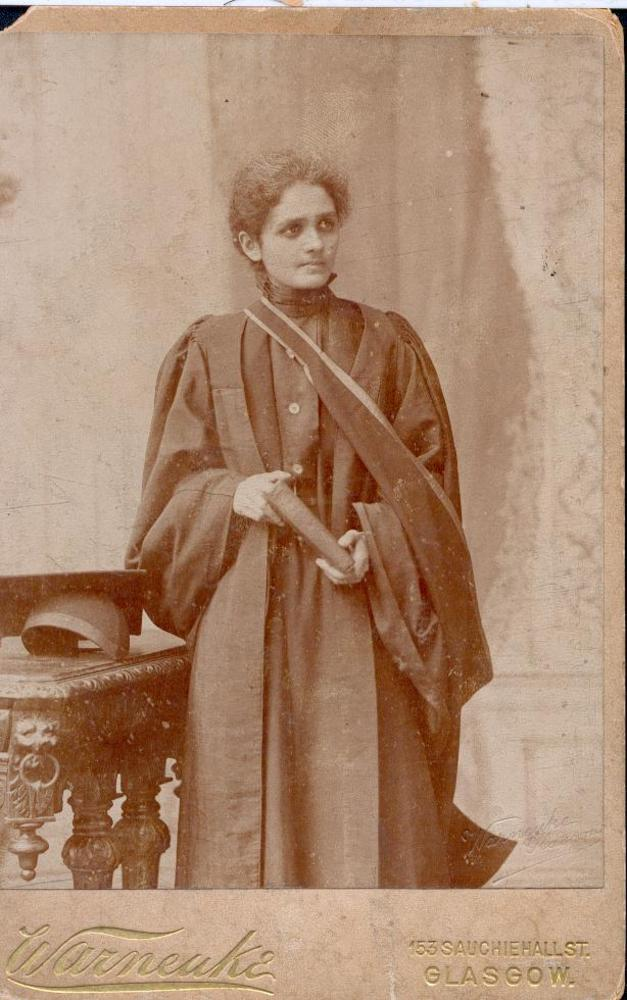 Graduation picture of Merbai Ardesir Vakil by long dead photographer who was working in Glasgow in 1853